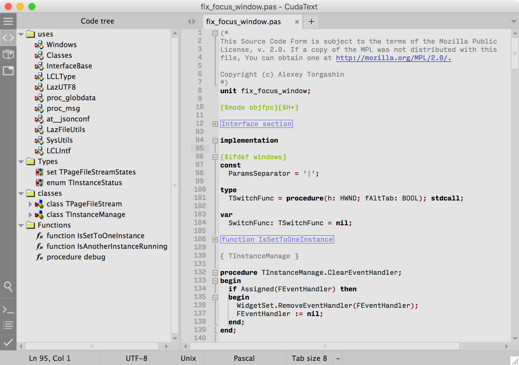 Screenshot oft CudaText showing a section of the CudaText source code.